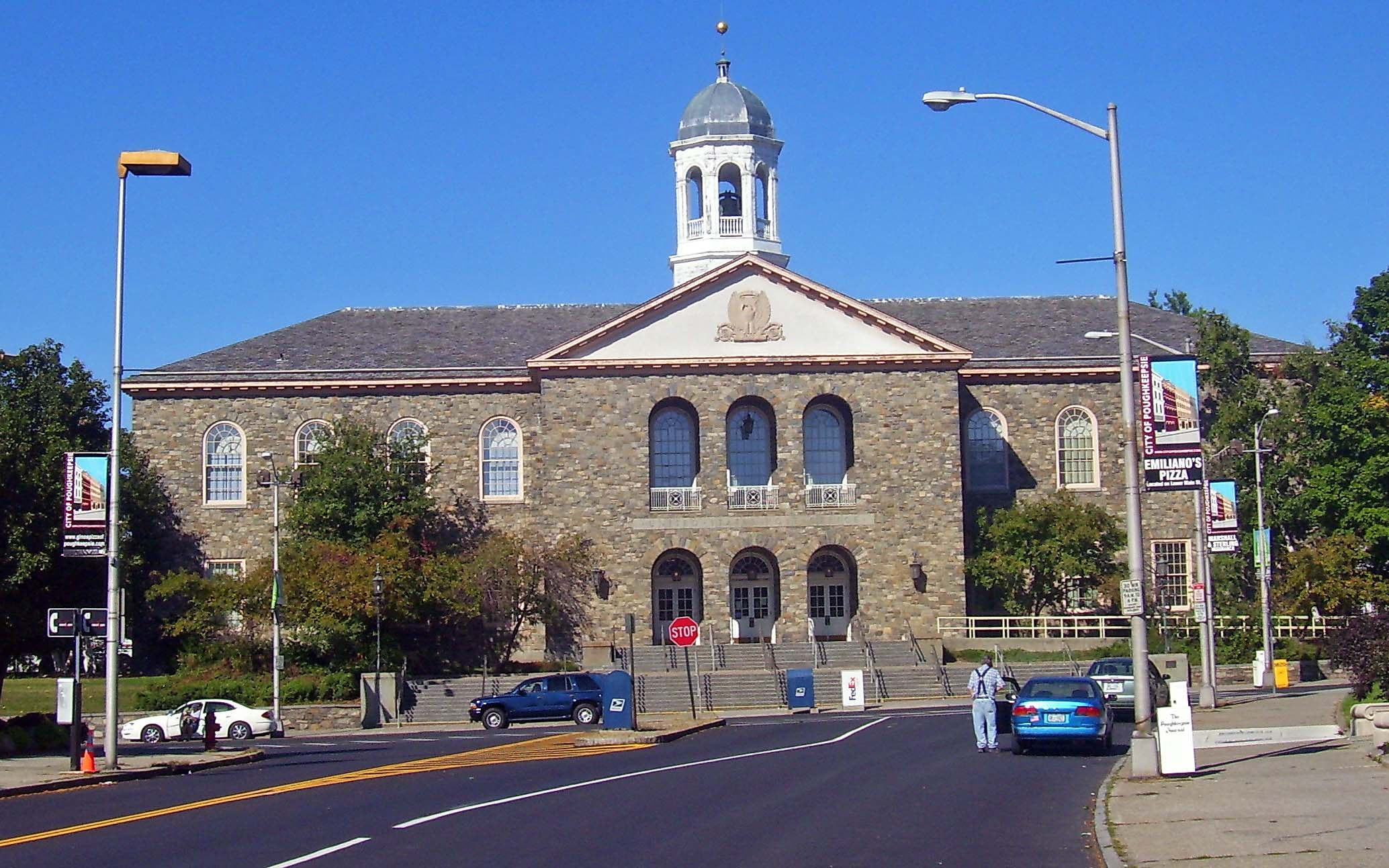 Poughkeepsie, NY, USA post office